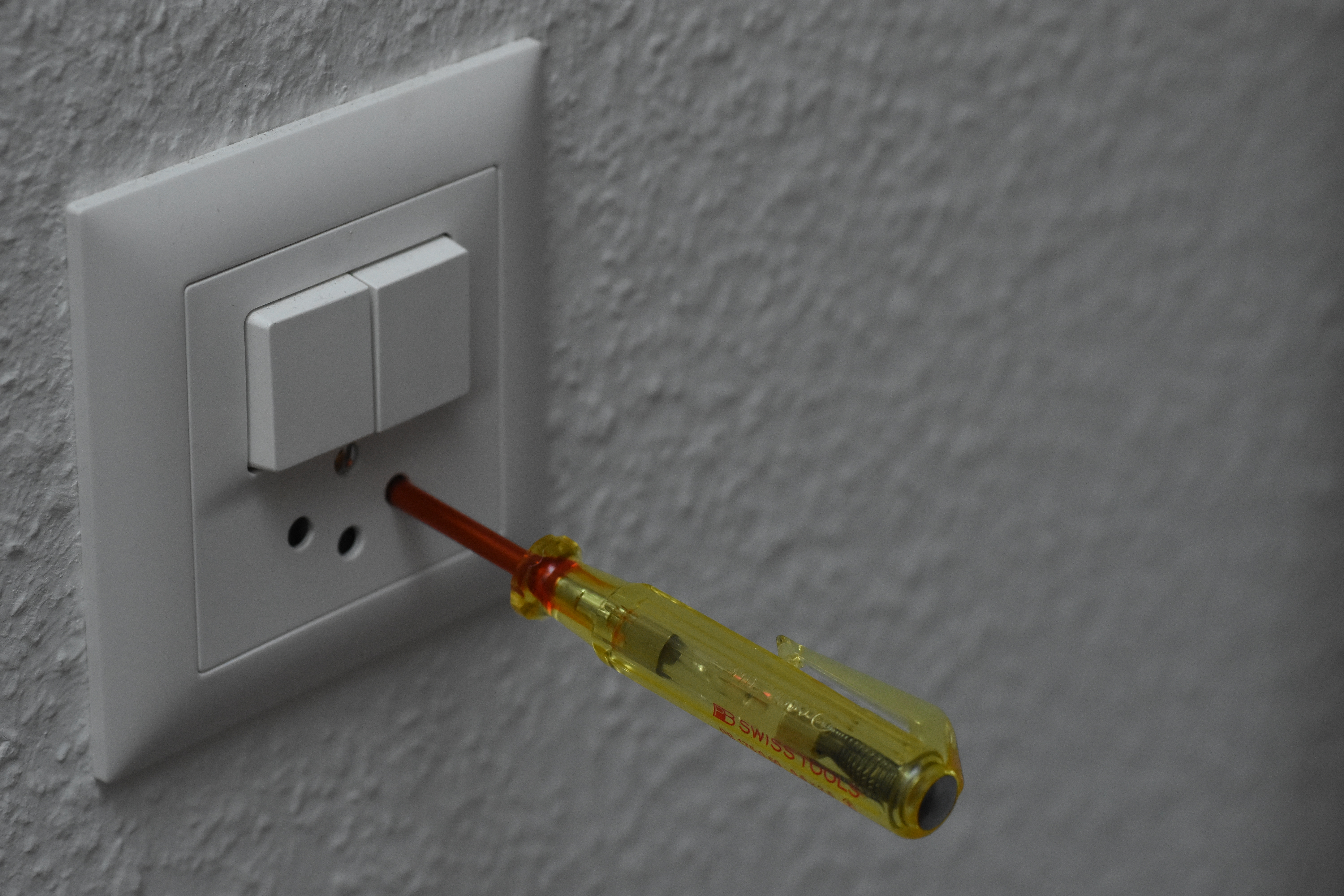 A test light by PB Swiss Tools for AC current. The circuit is closed by touching the contact on the end of the tester; in this image, it is not closed.